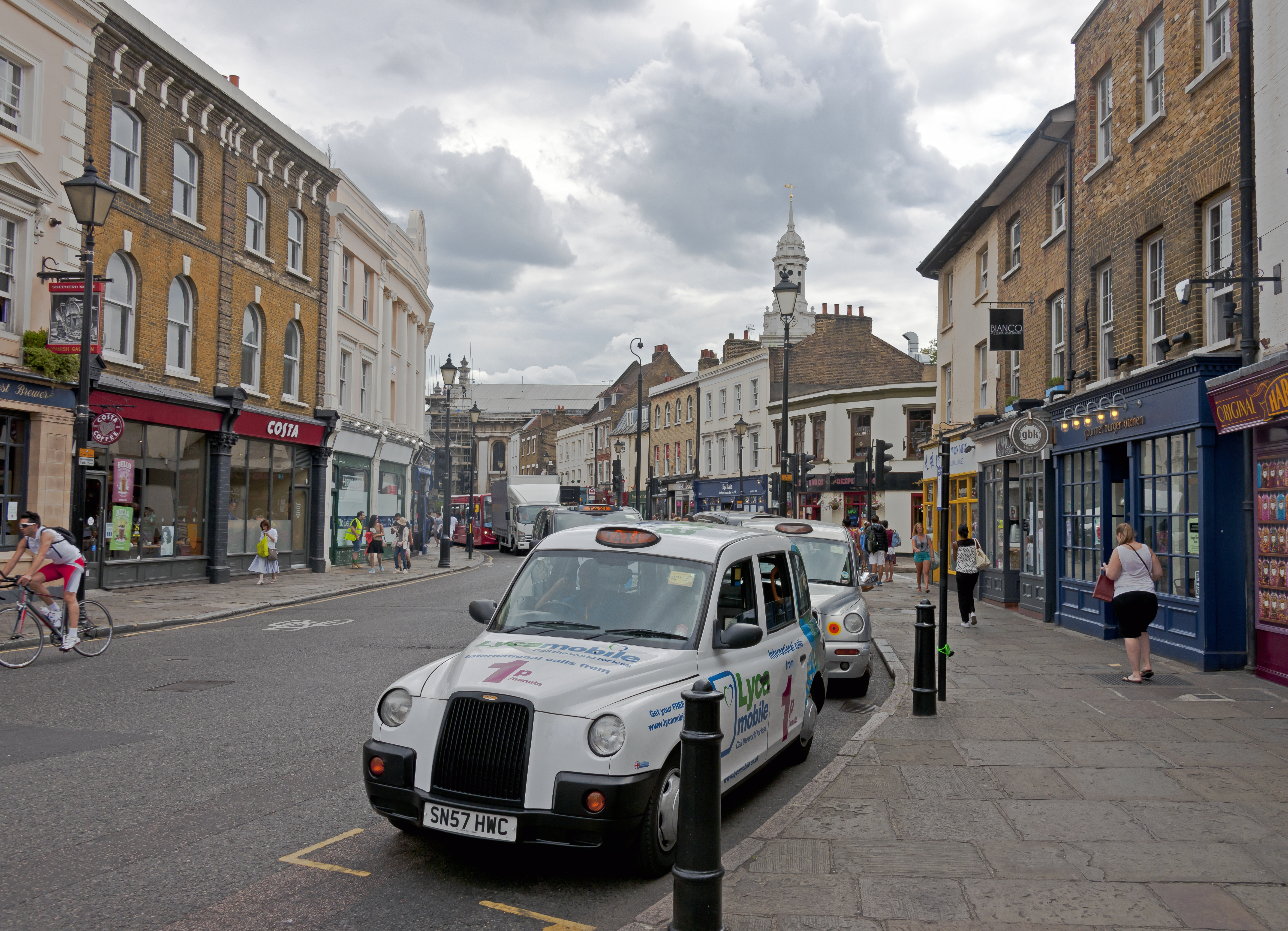 View down the A206 to the A200 in the historic section of Greenwich